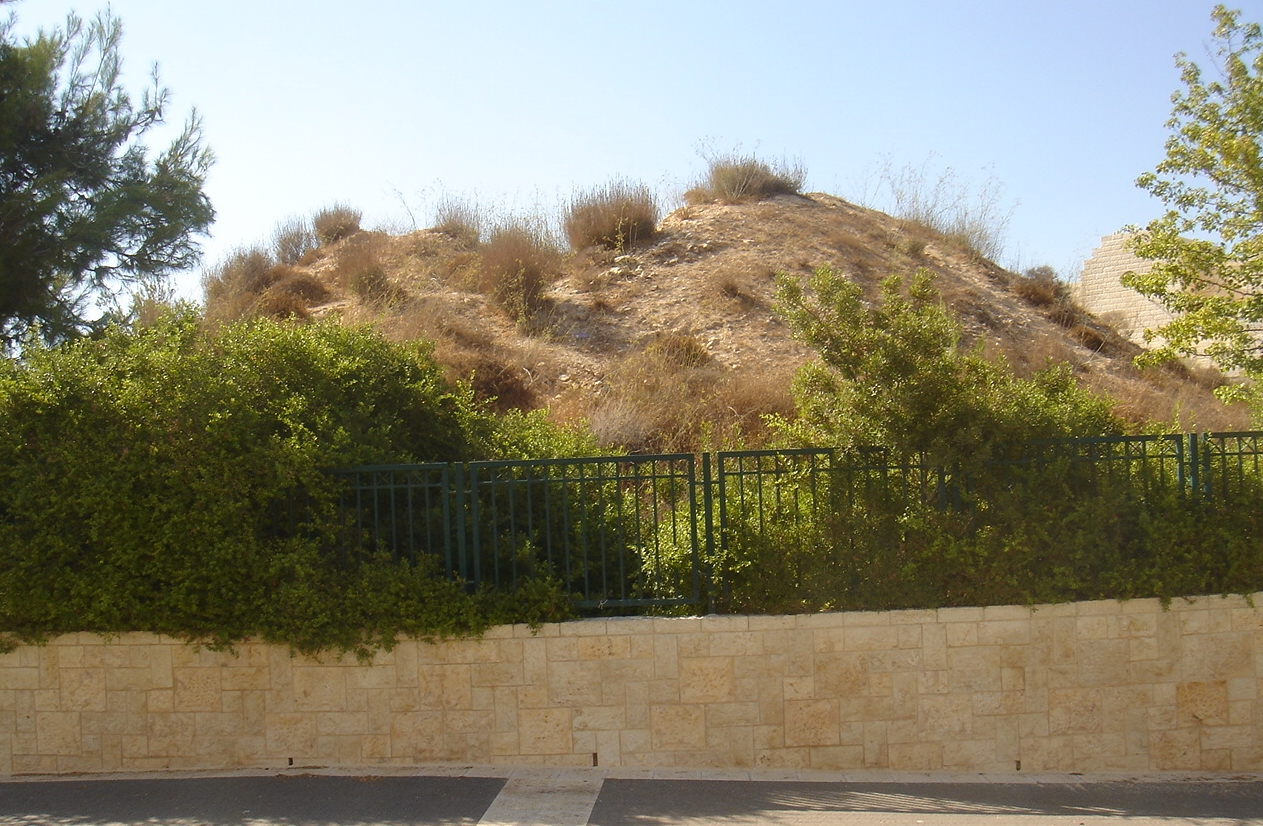 Tumulus 2, Jerusalem. W.F. Albright's excavation trench is still visible. (August, 2006)